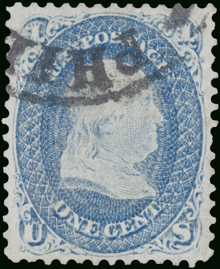 The 1868 1-cent "Z-grill" from the William H. Gross collection